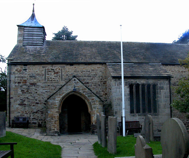 Church of St Lawrence in the Parish of Great Barlow A beautiful village church in a quiet rural setting.